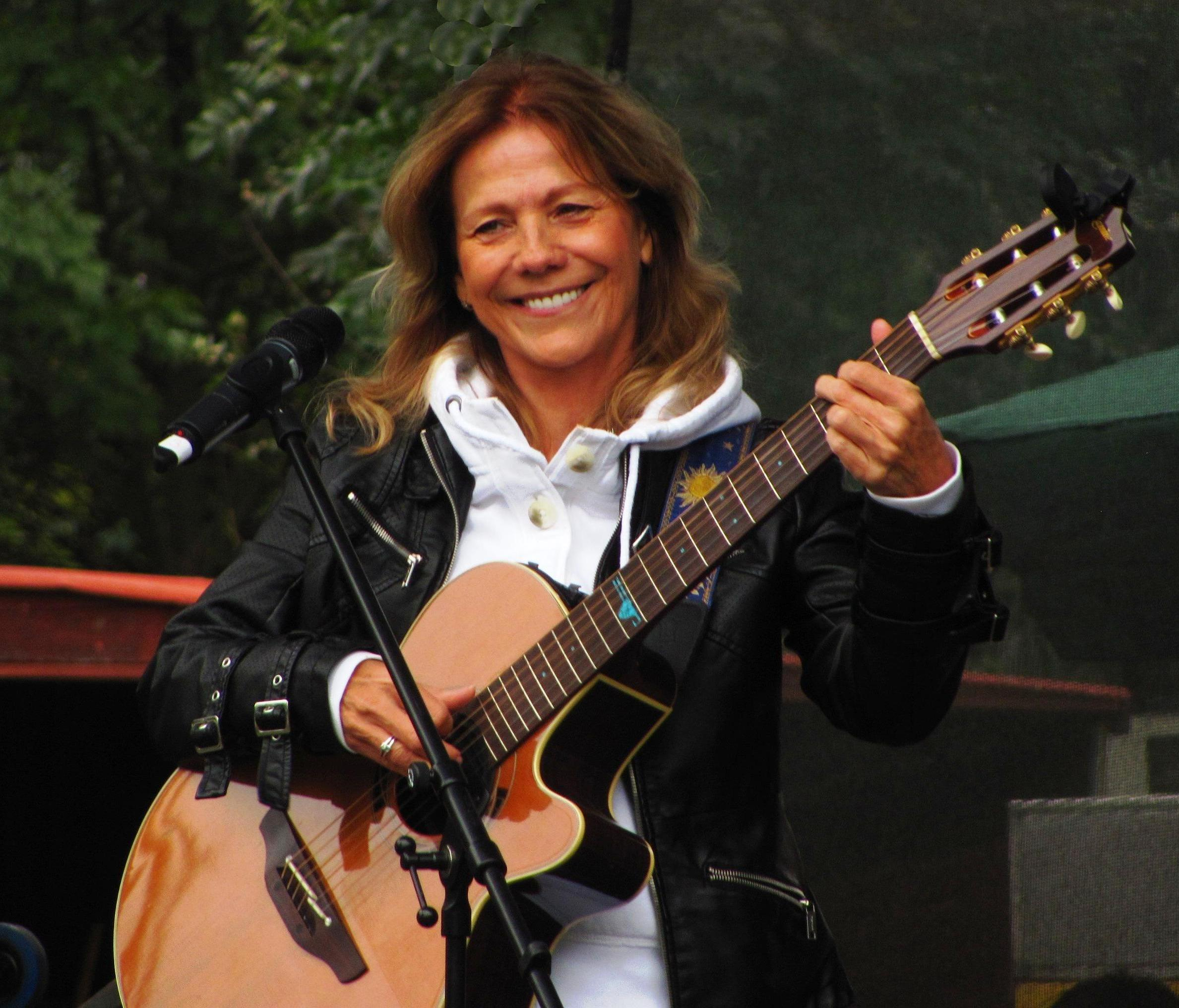 Lenka Filipová, Czech vocalist (2012)